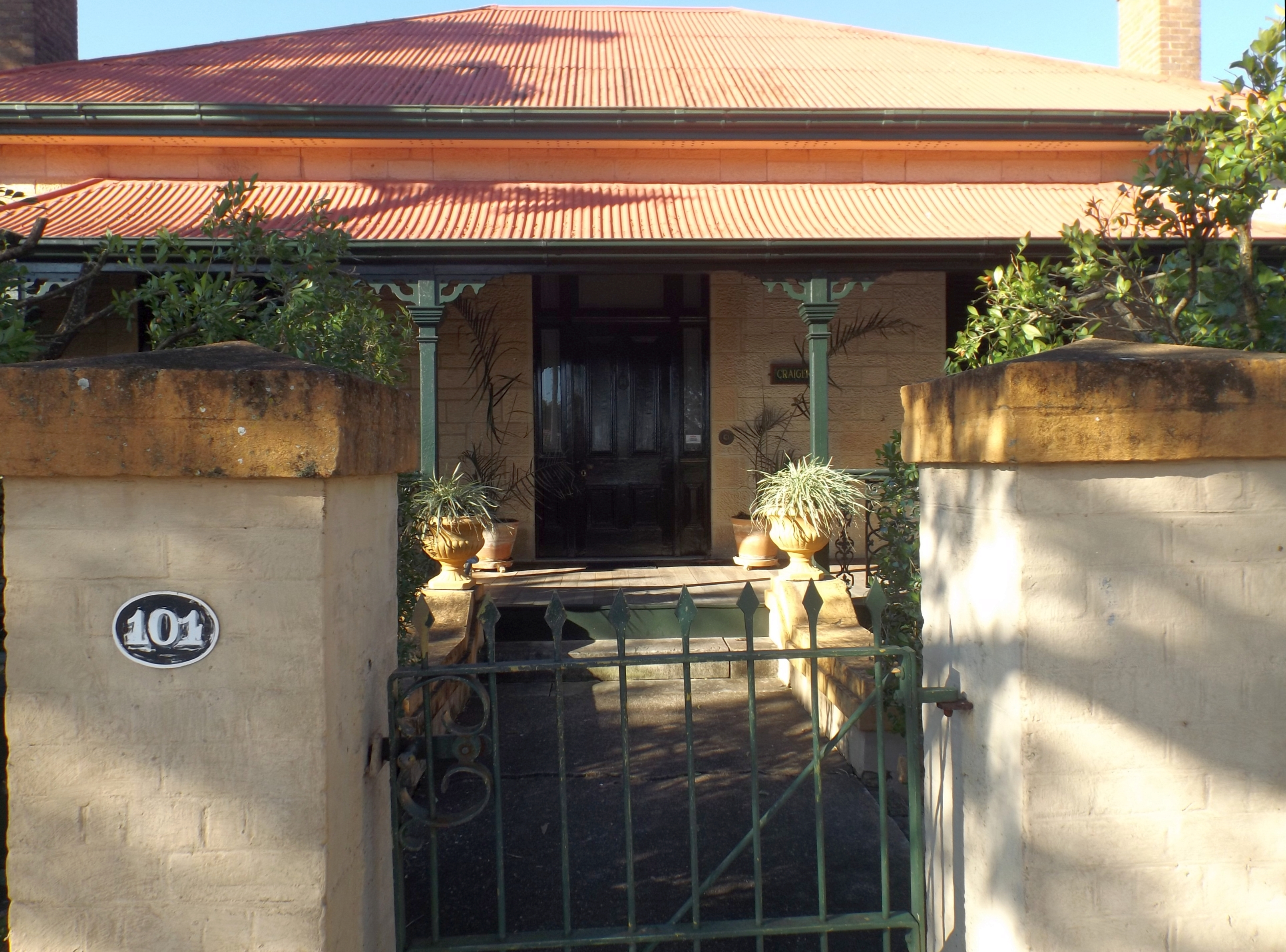 Photo of the entrance to the Craigerne residence at Red Hill, Brisbane, Queensland, Australia.